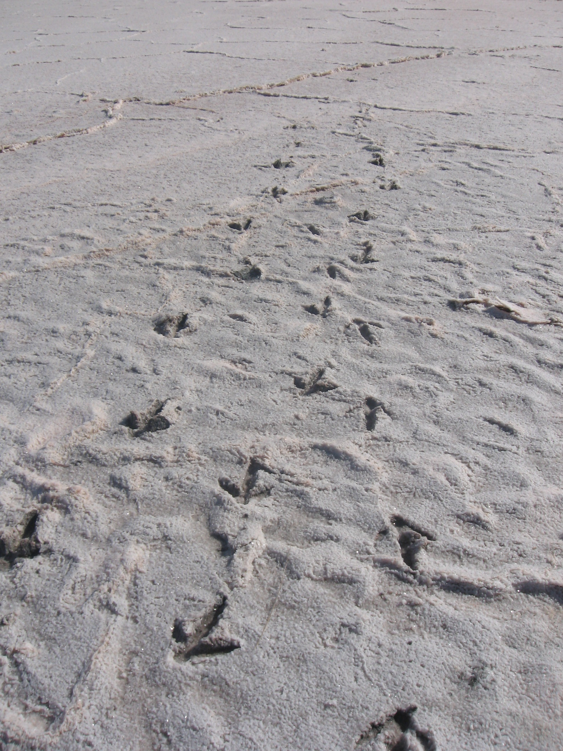 Emu tracks on the surface of Pink Lakes in the Murray Sunset National Park, Victoria, Australia